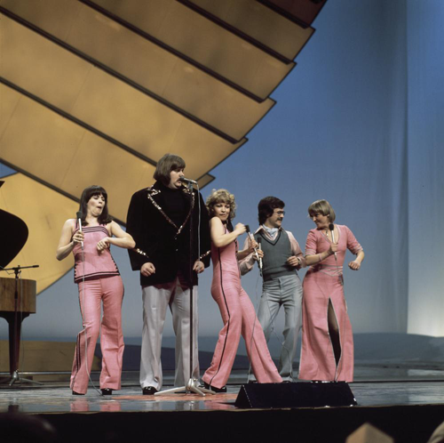 Fredi & Ystävät at a rehearsal for the Eurovision Song Contest 1976.